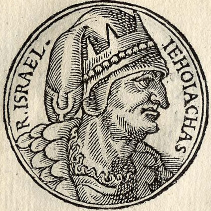 Jehoahaz of Israel was king of Israel and the son of Jehu (2 Kings 10:35).